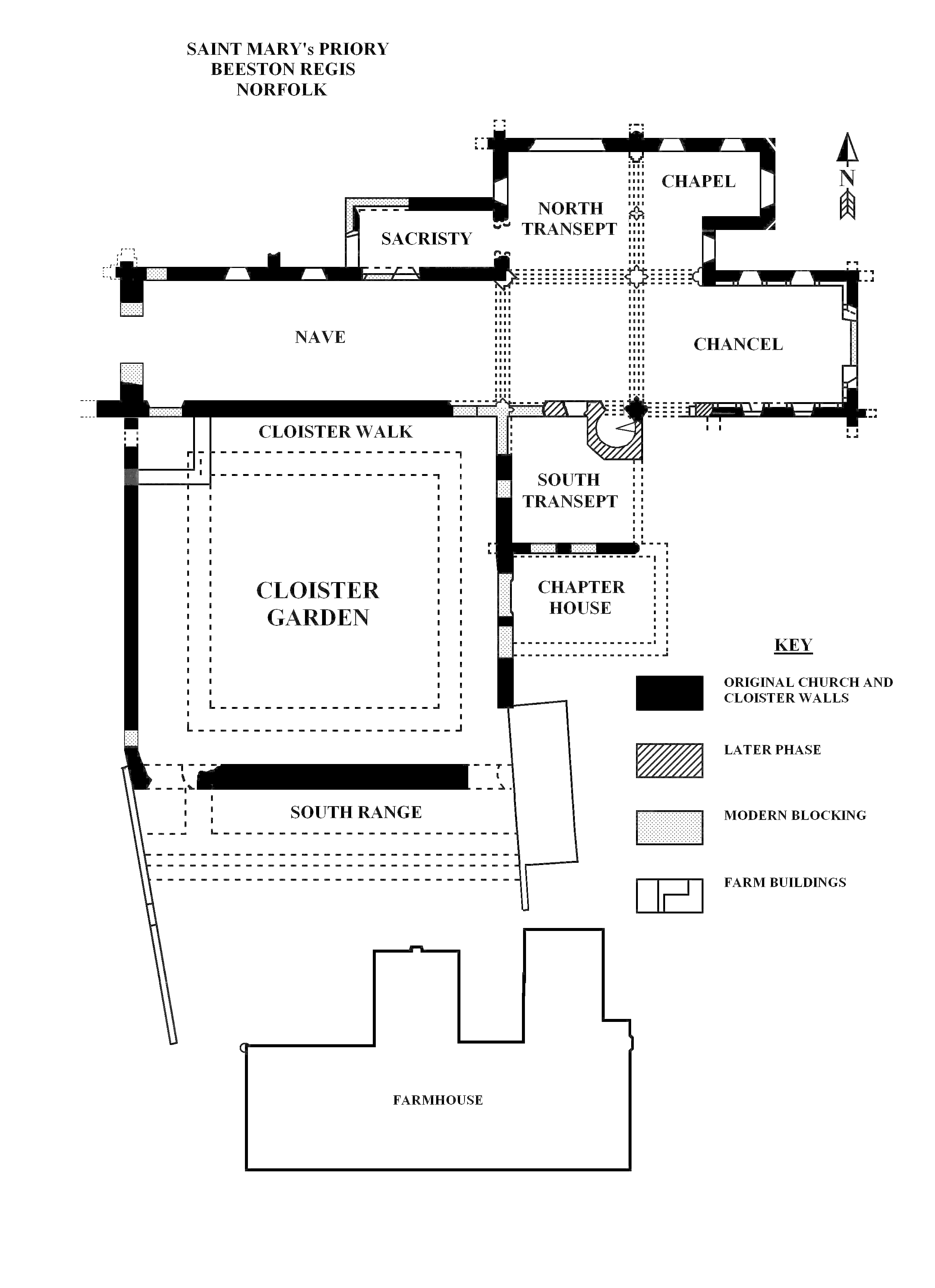 A Digitaly scanned image of the plans of Beeston Regis Priory Drawn by Mark Hobbs